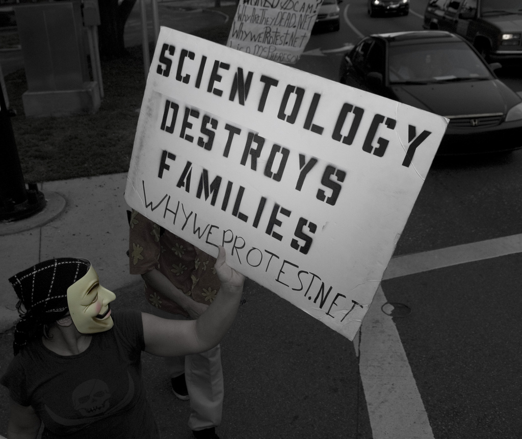 Energetic Anonymous protester in Clearwater, Florida.